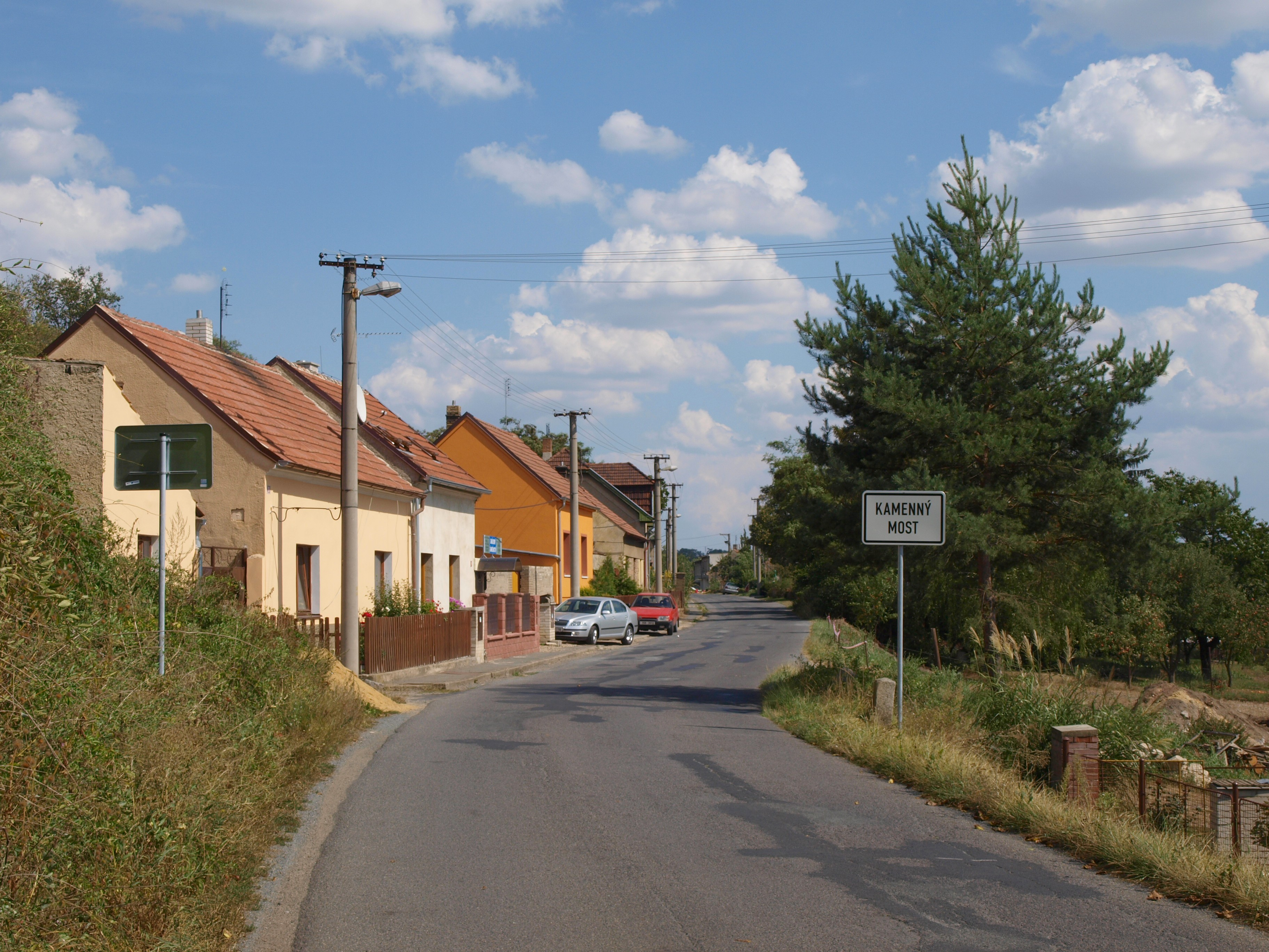 Start of village near Zvoleněves, Kamenný Most, Kladno District, Czech Republic